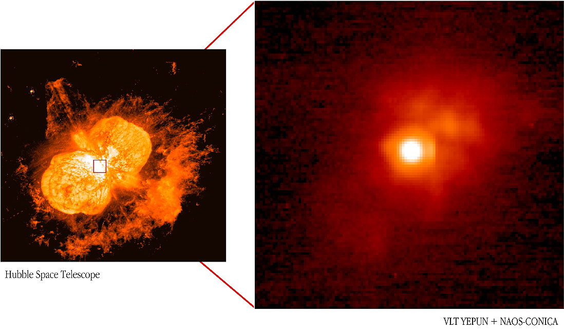 The mushroom-shaped clouds, known as the Homunculus Nebula , that surround the massive star Eta Carinae (Credit: NASA/ESA HST). To the right is an image obtained with the VLT NACO adaptive-optics camera that reveals the structure of the star's immediate surroundings. The central region displays a complex morphology of luminous objects.